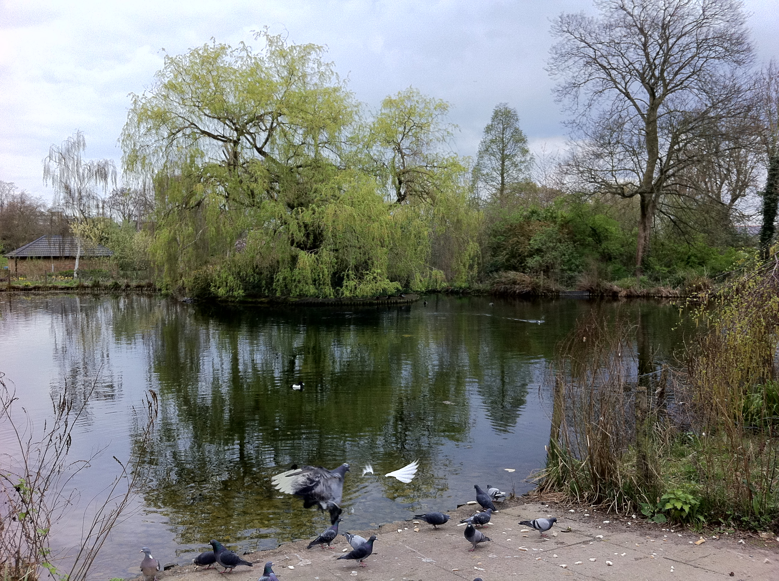 Sydenham Wells Park, named after medicinal springs, is located on Wells Park Road in Upper Sydenham, London. It opened in 1901.